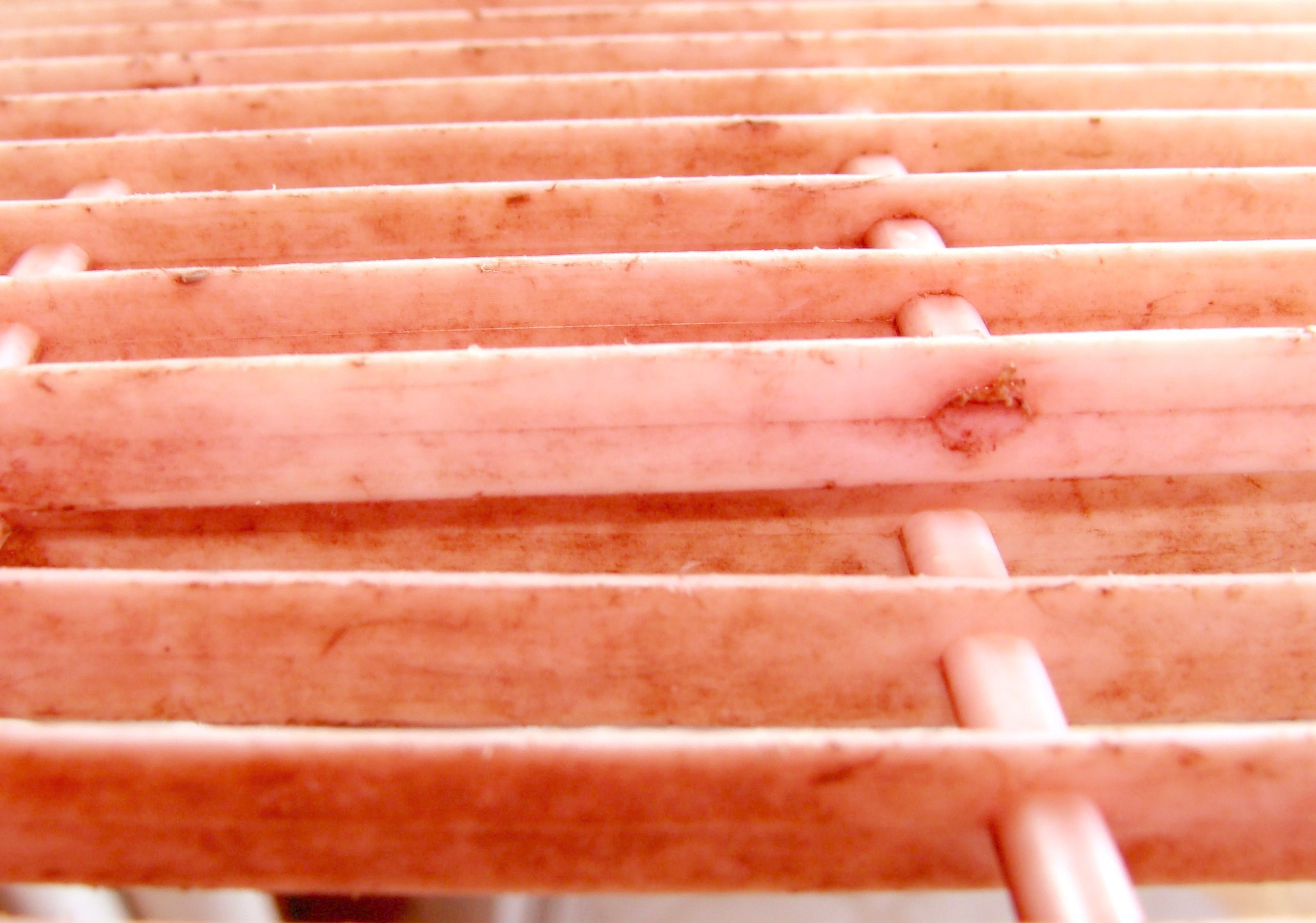 Serratia marcescens growing on the slats of a bread shelf